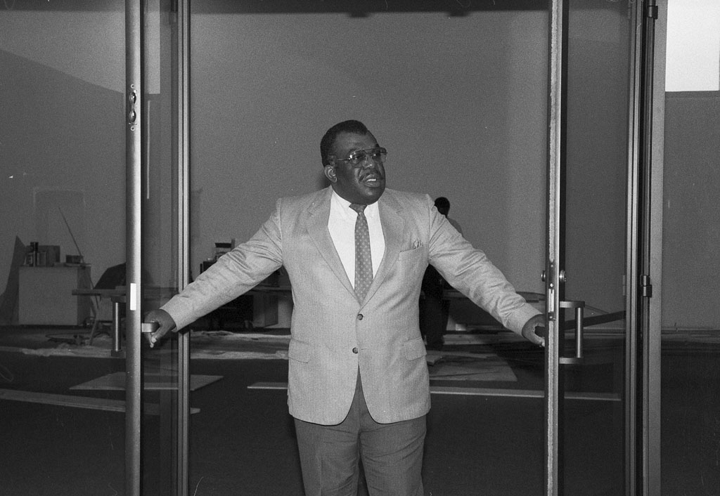 Anacostia Museum (AM) Director John R. Kinard opens the doors of the new AM building, 1987.